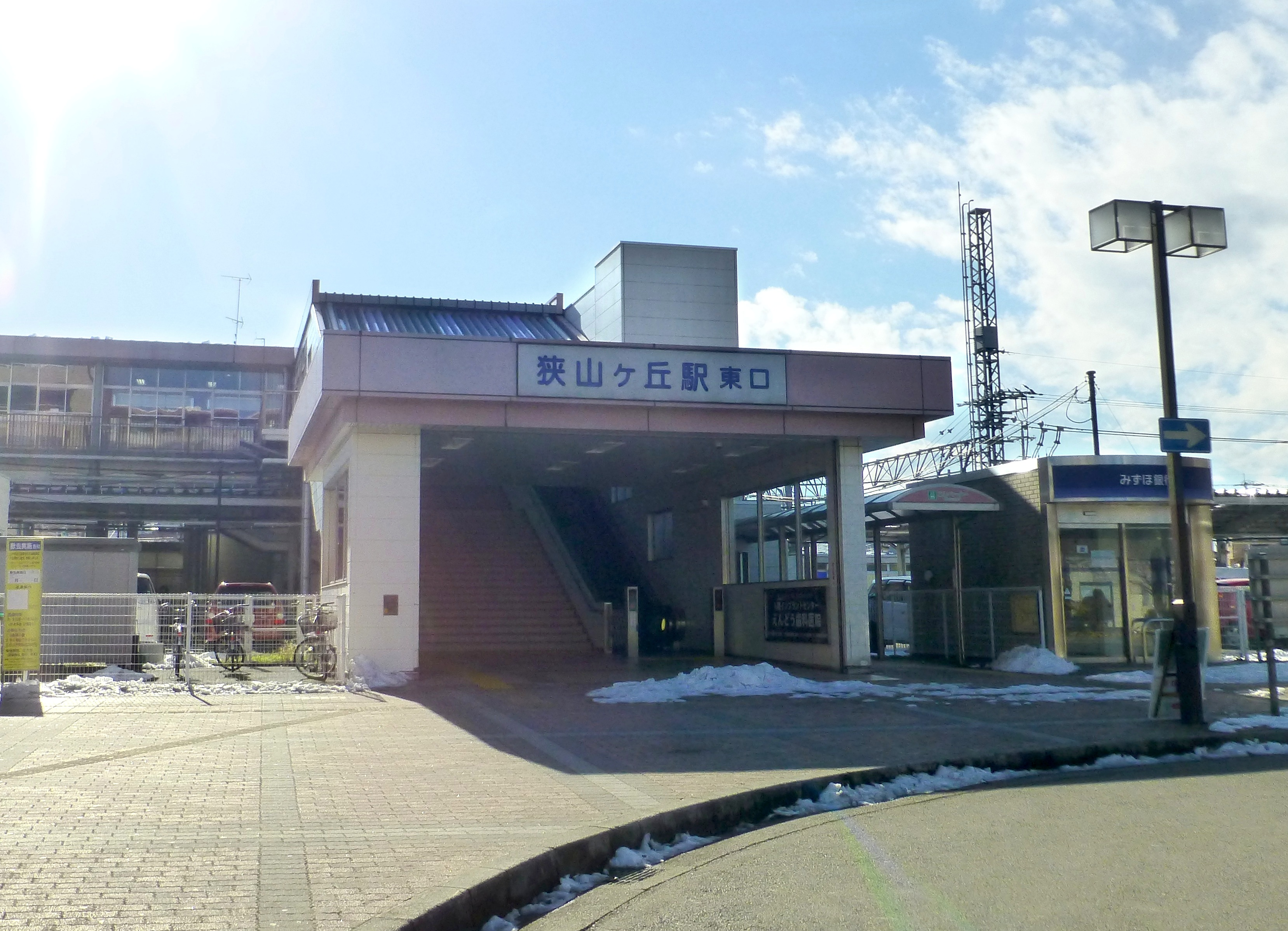 Sayamagaoka Station east entrance